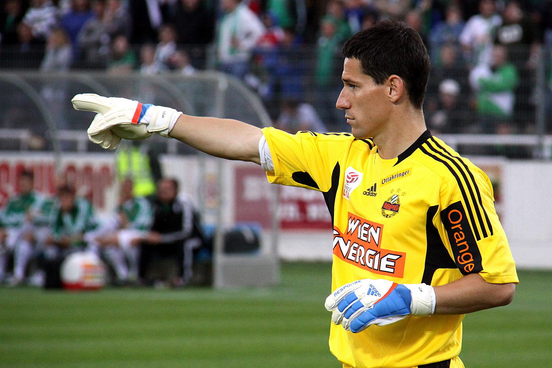 SC Wiener Neustadt (blue shirts) vs SK Rapid Wien (white shirts) 0:2 (0:0) – The foto shows keeper Helge Payer (SK Rapid Wien).